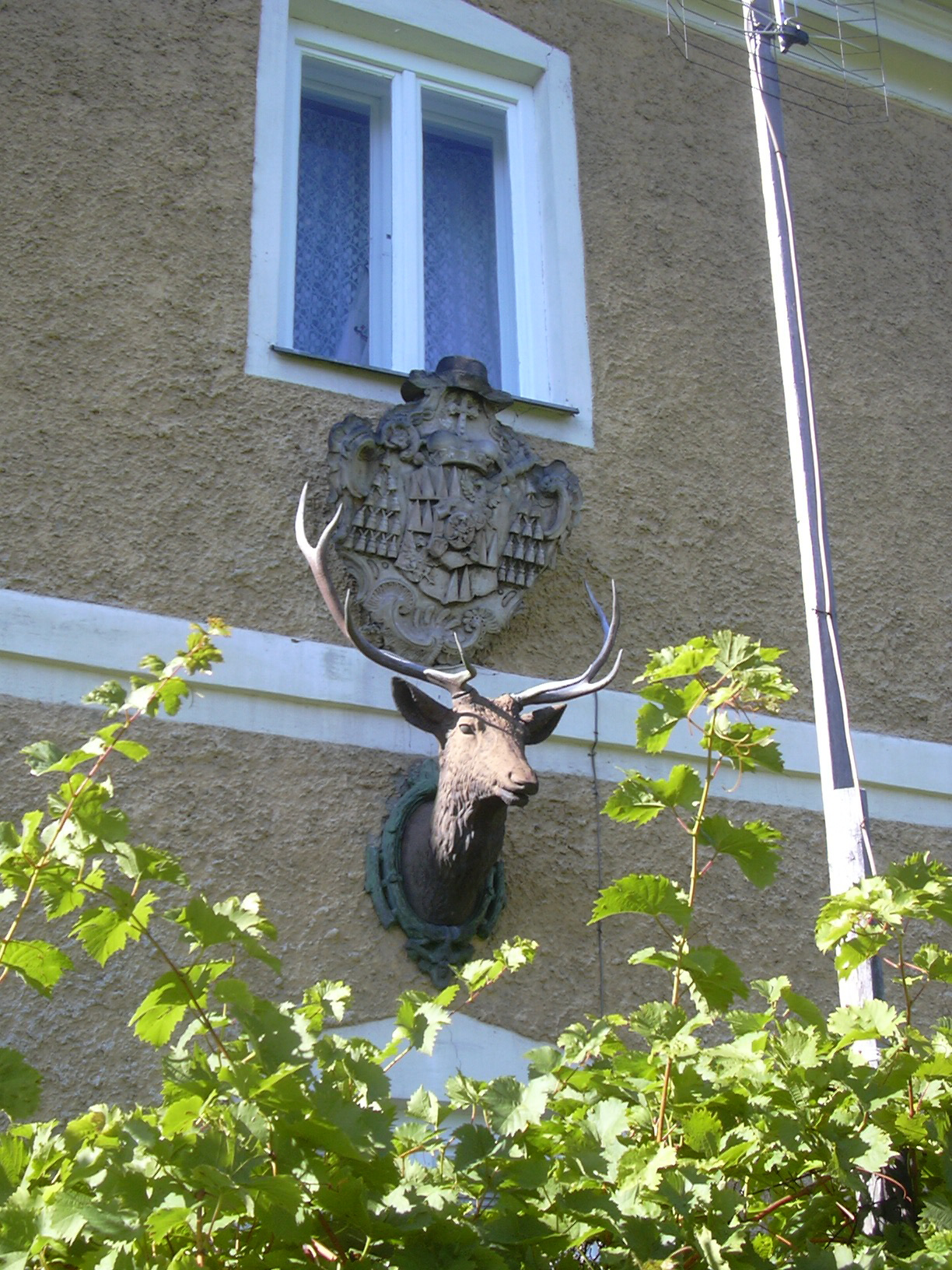 Coat of arms of bishop of Olomouc Ferdinand Julius von Troyer in Rychtářov in Vyškov (Czech Republic).